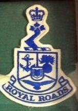 Royal Roads Military College patch